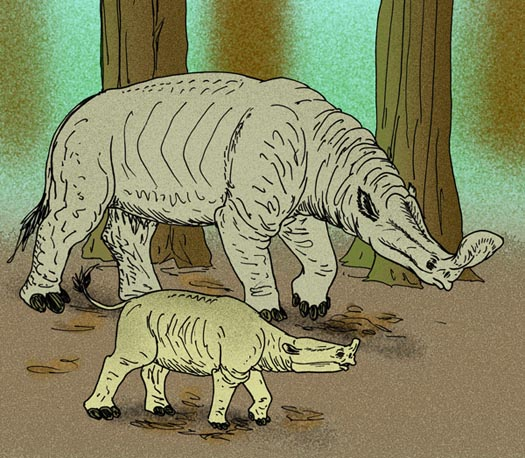 Reconstruction of calf and adult of the Mongolian brontothere Embolotherium grangeri